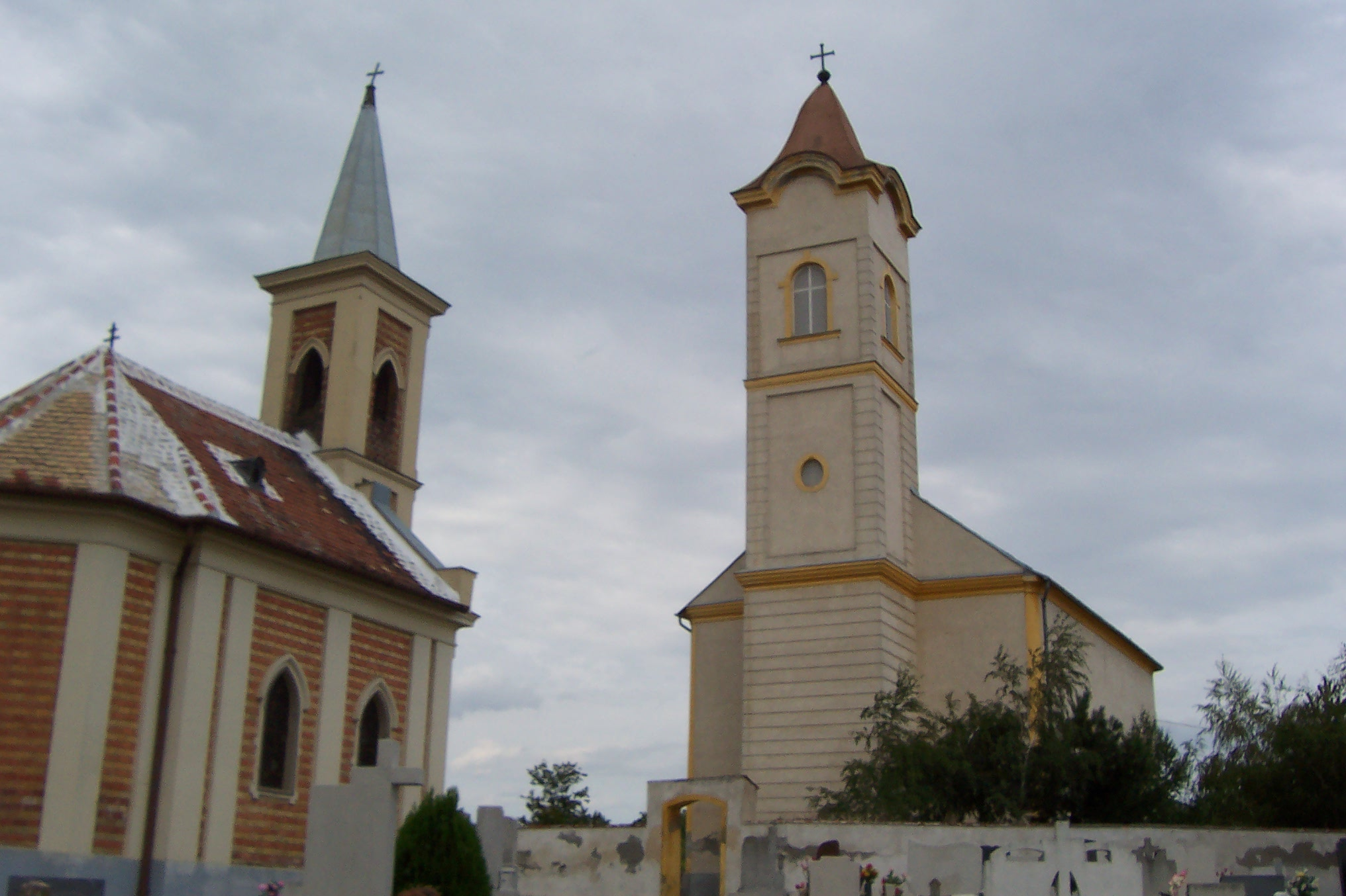 Barbacs, roman catholic church This is a photo of a monument in Hungary, Identifier: 3994